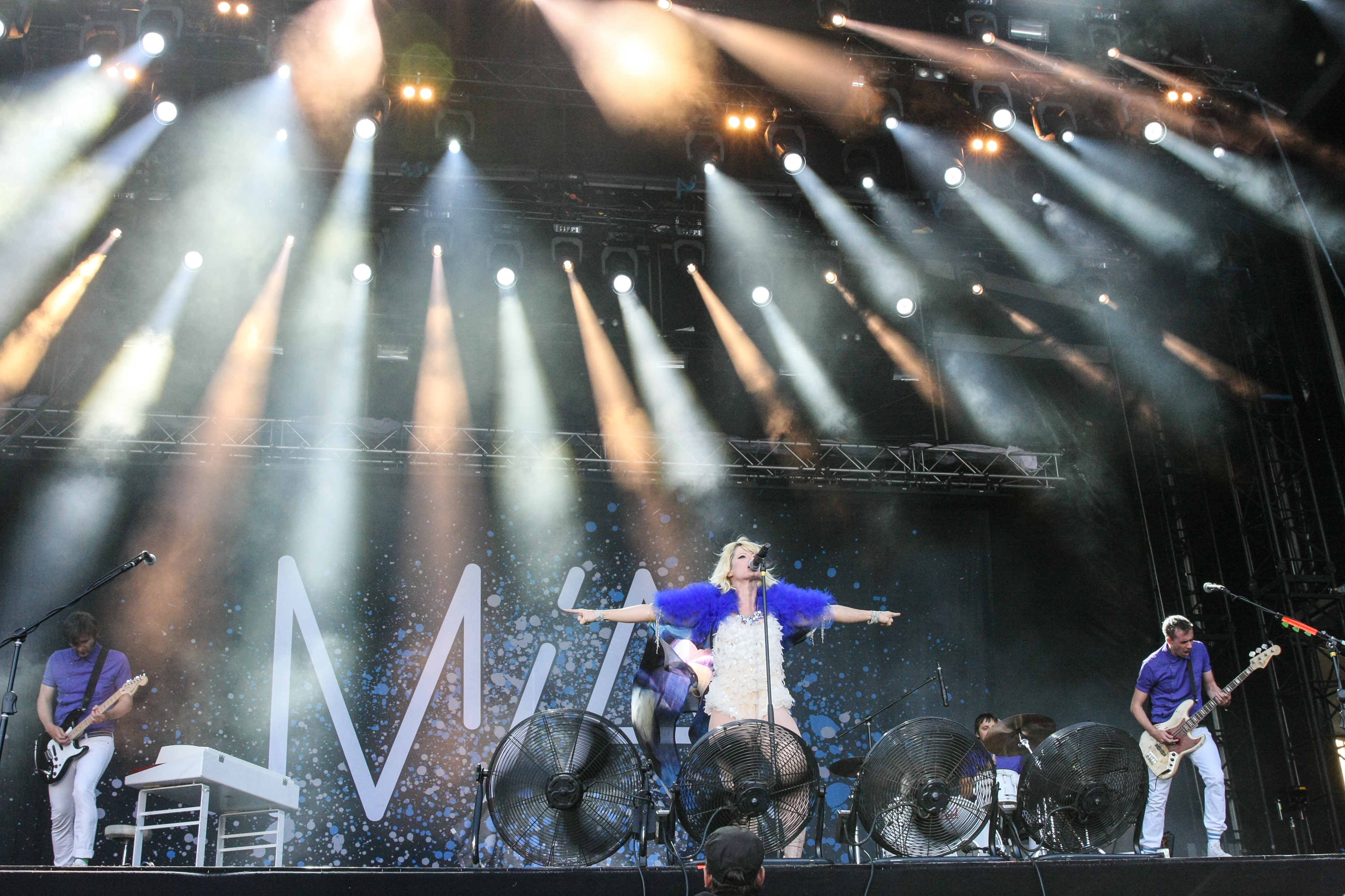 MIA. performing at Berlin Festival 2013